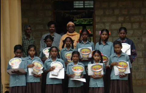 SHBees=PublikResource. Girls Khokho Video Clip shot at SRVK School- in 2007. Shivanahalli, Bangalore, Karnataka.India